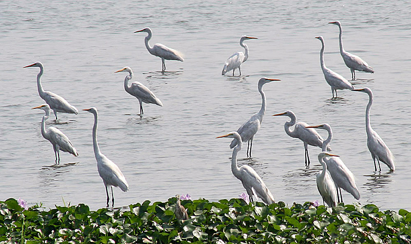 Eastern Great Egret Ardea modesta in Kolkata, West Bengal, India.